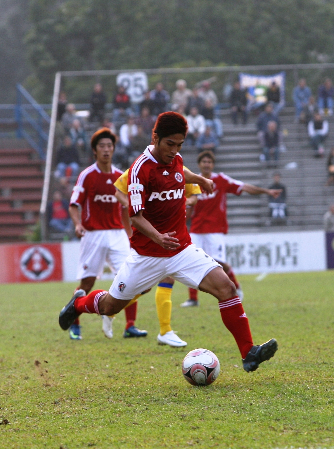 leechiho